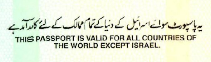 Detail of a Pakistani passport. "This passport is valid for all countries of the world except Israel."